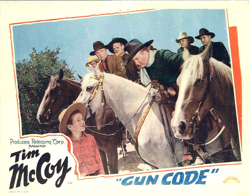 Lobby card for the American western film Gun Code (1940).